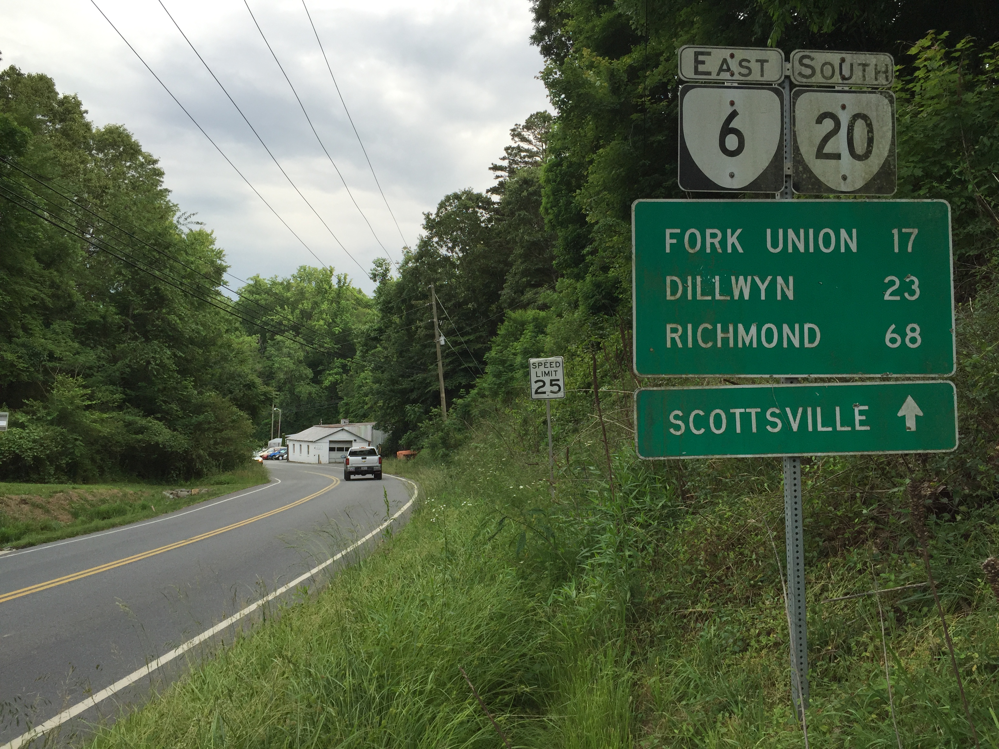 View east along Virginia State Route 6 and south along Virginia State Route 20 (Valley Street) just south of Irish Road in Scottsville, Albemarle County, Virginia